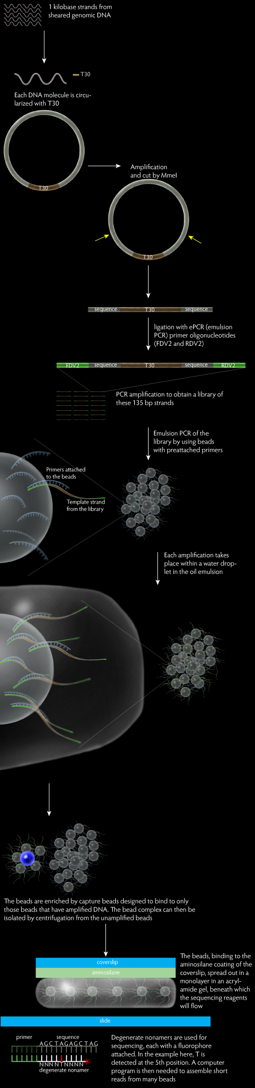 An illustrated supplement to the Polony Sequencing page on Wikipedia.